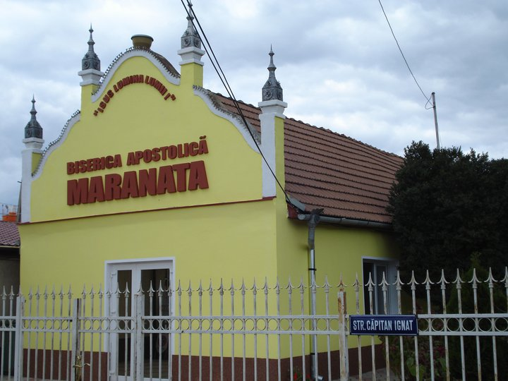 Arad Church